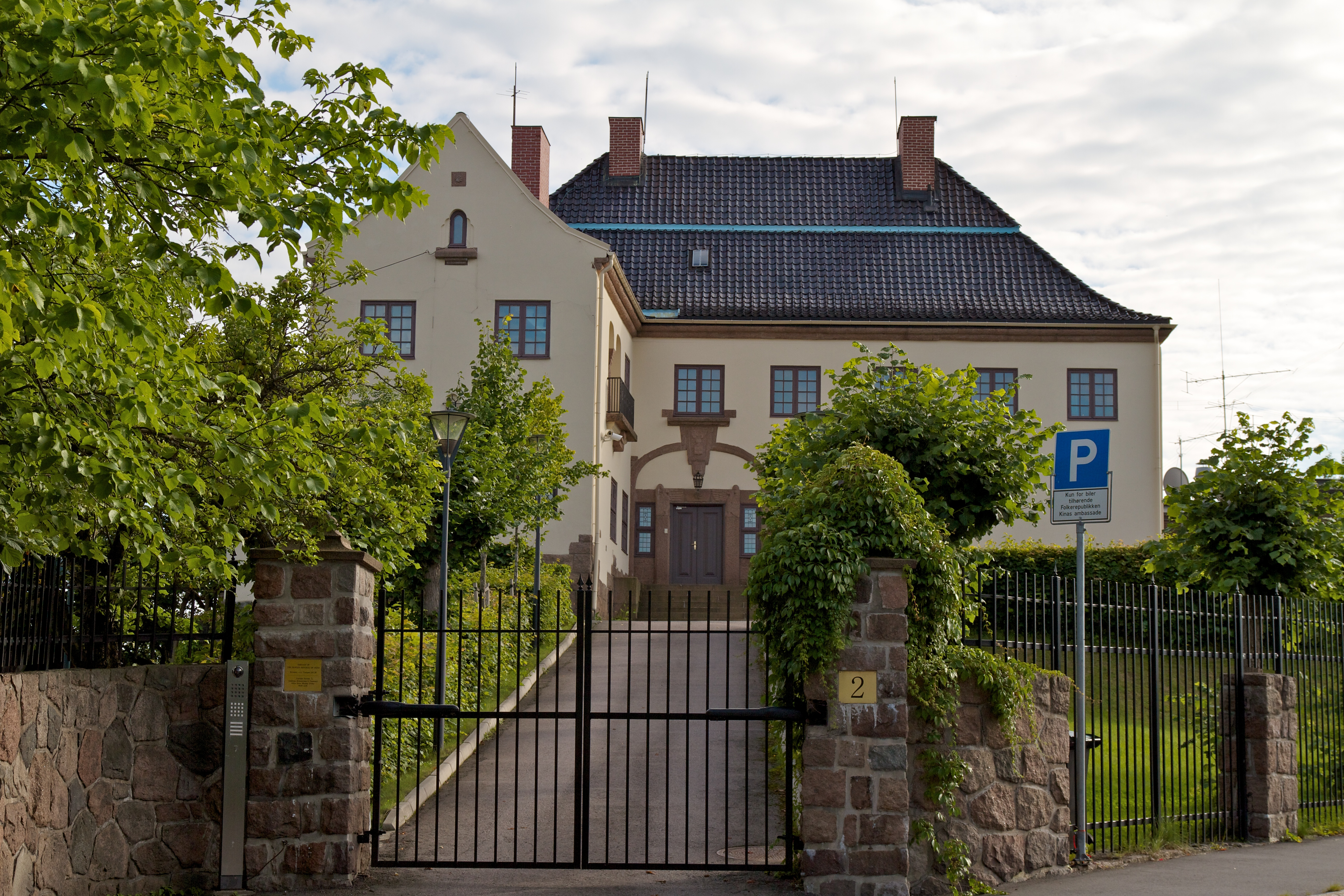 Chinese Embassy, Oslo